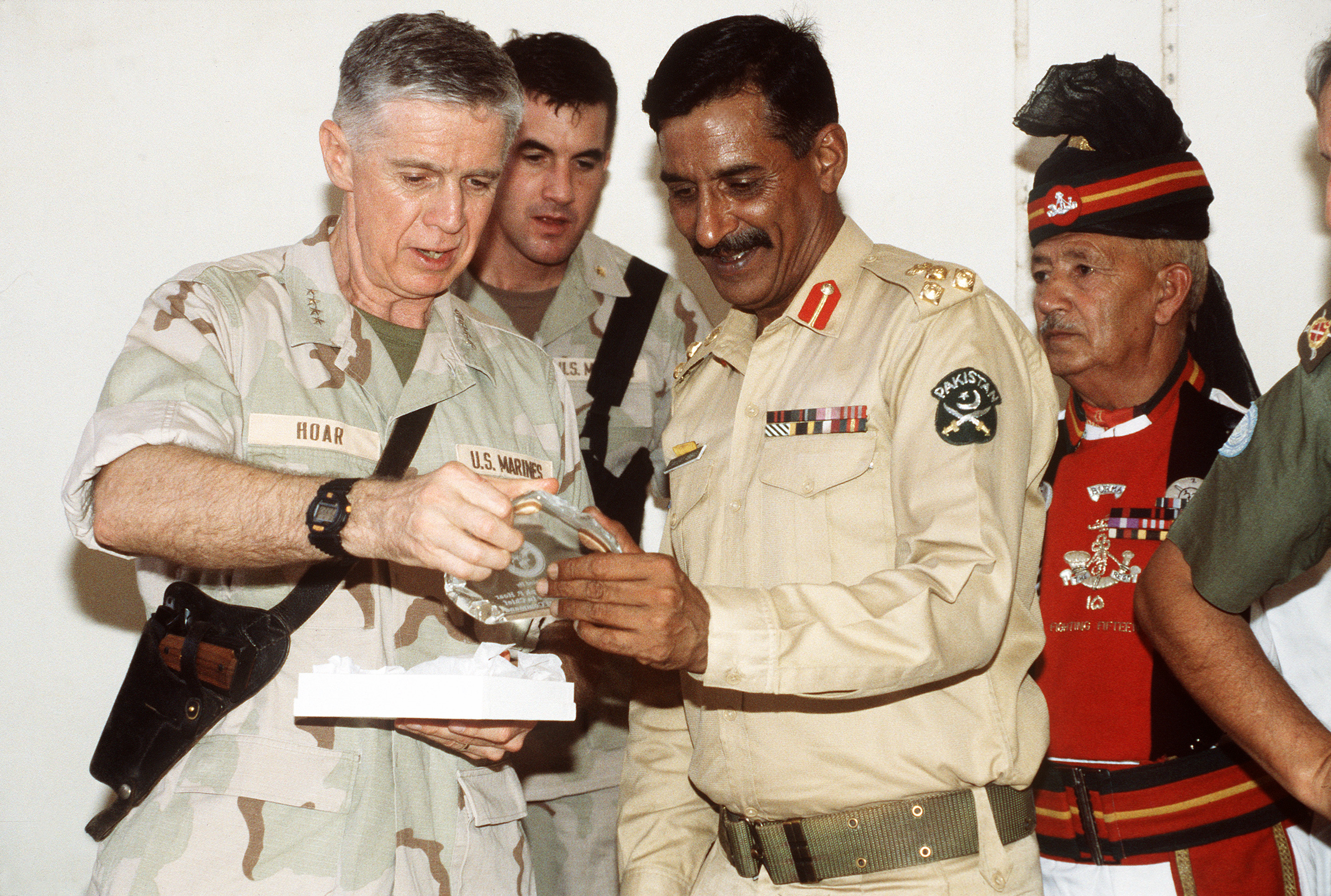 General Joseph P. Hoar, USMC, Commander in Chief U.S. Central Command, presents a plaque to the Pakistani General in charge of some of the ground troops provide support in Mogadishu.